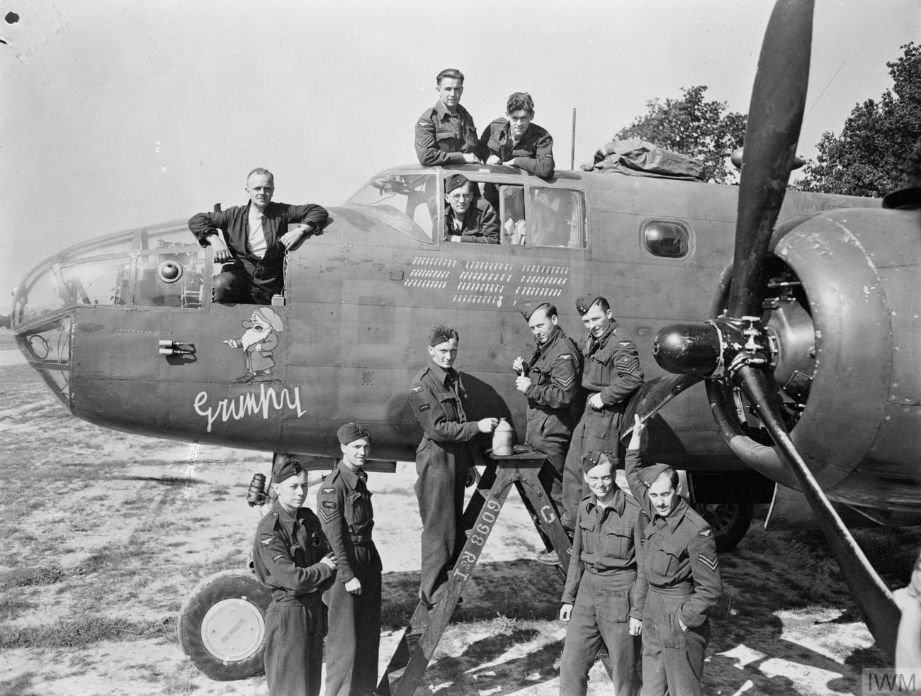 IWM caption : Ground personnel of No. 98 Squadron RAF, who serviced North American Mitchell Mark III, HD372 'VO-B' "Grumpy", during its record operational career, gather at the aircraft's nose at Dunsfold, Surrey, as Corporal V Feast paints the 102nd bomb symbol onto its tally of operations.